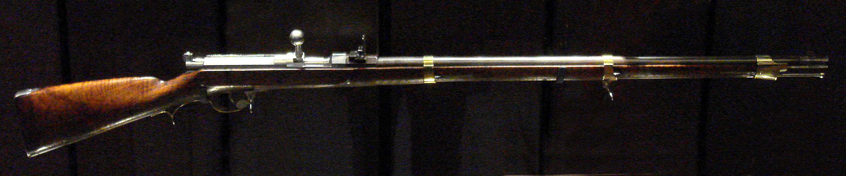 Dreyse needle gun. Model M1841 or M1862 but not 1865 because only one trigger